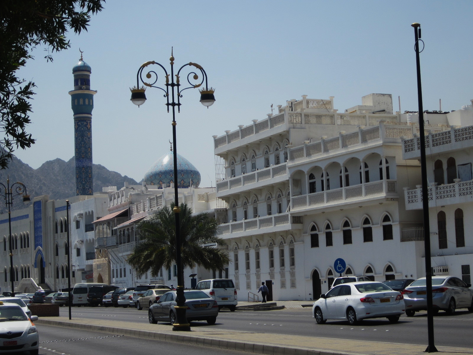 Muscat. Oman harbour town - main thoroughfare